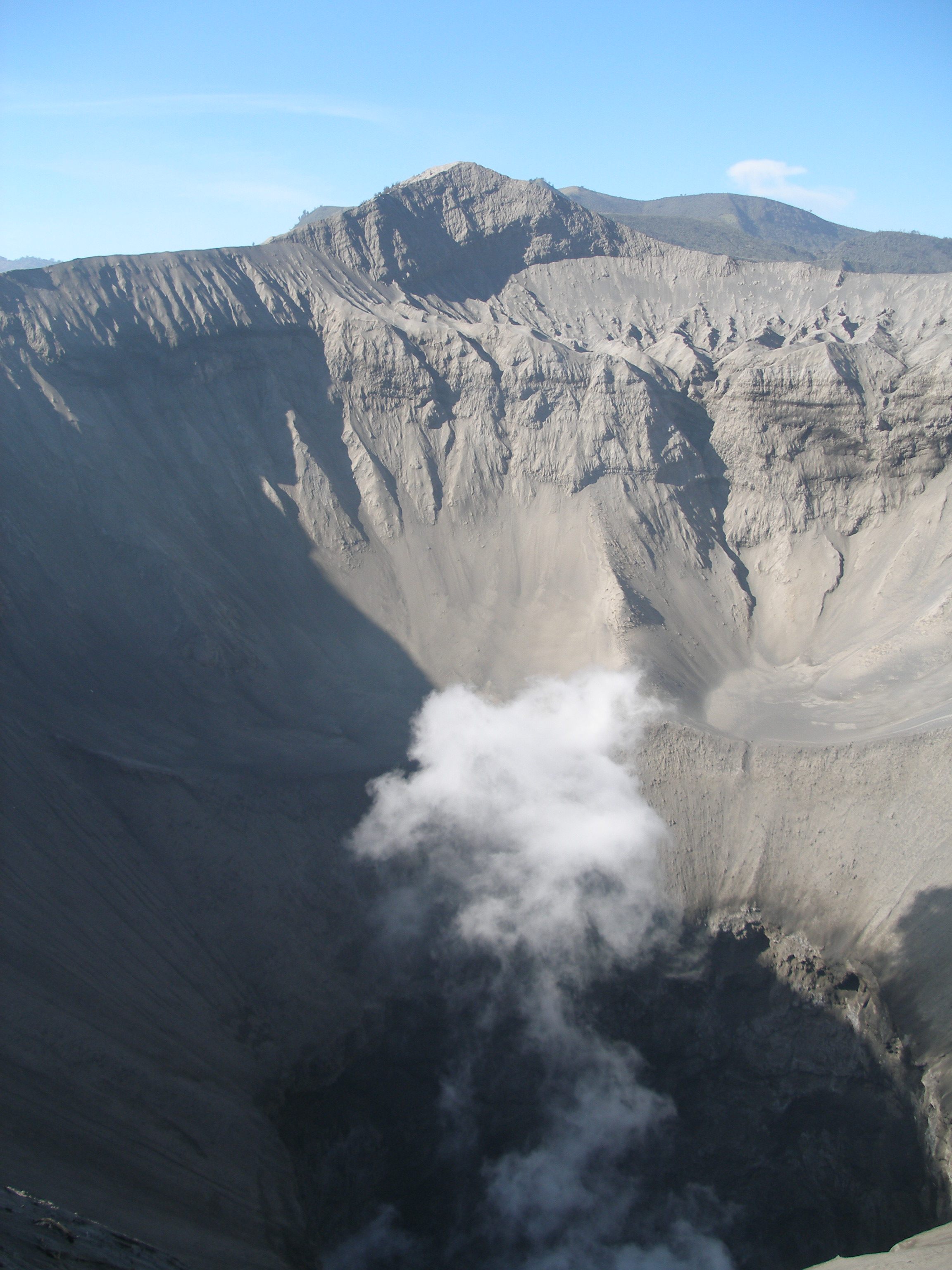 After the eruption from November 2010 to January 2011 the crater of Bromo looks now different as in the past.